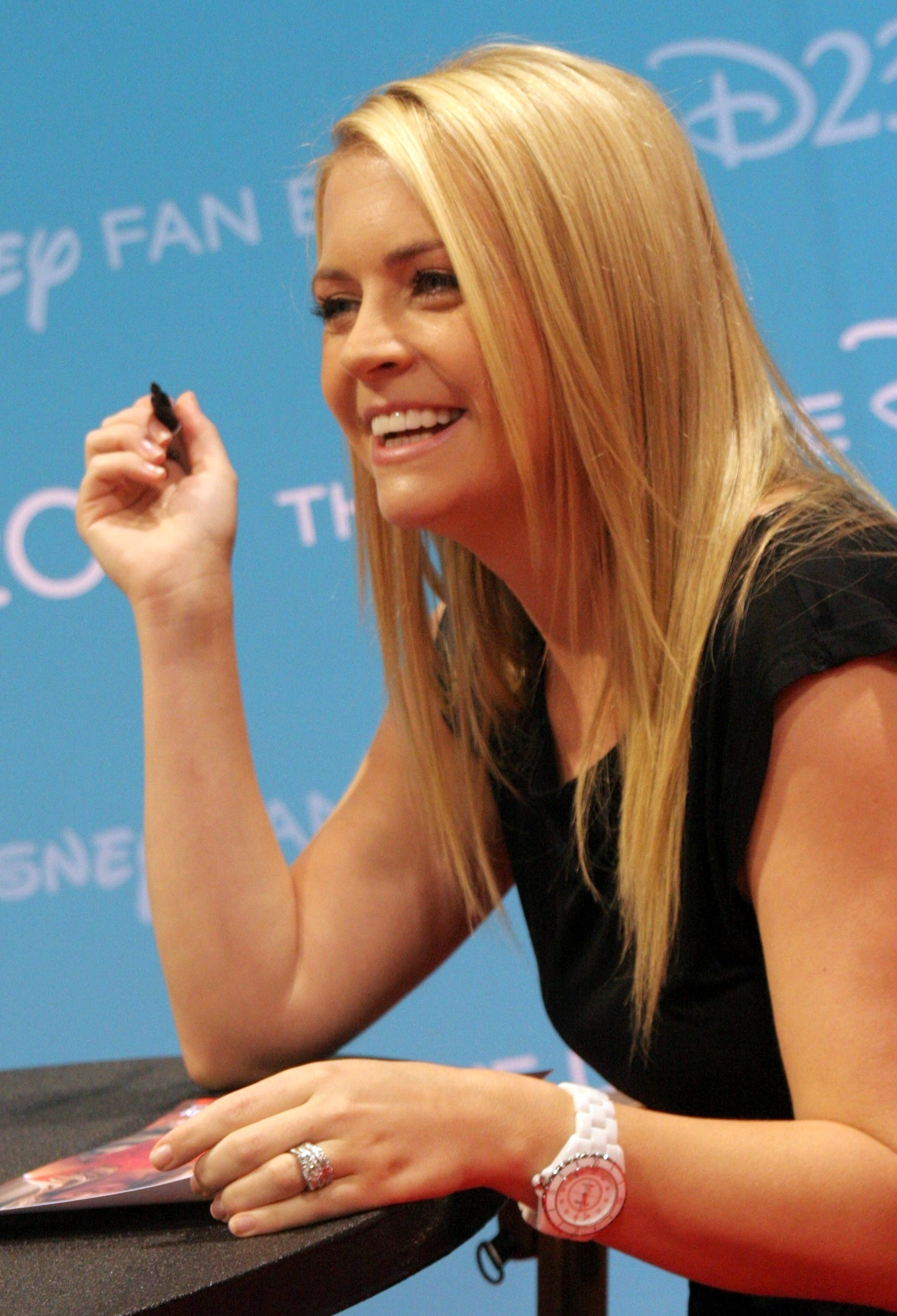 American actress Melissa Joan Hart in August 2011.